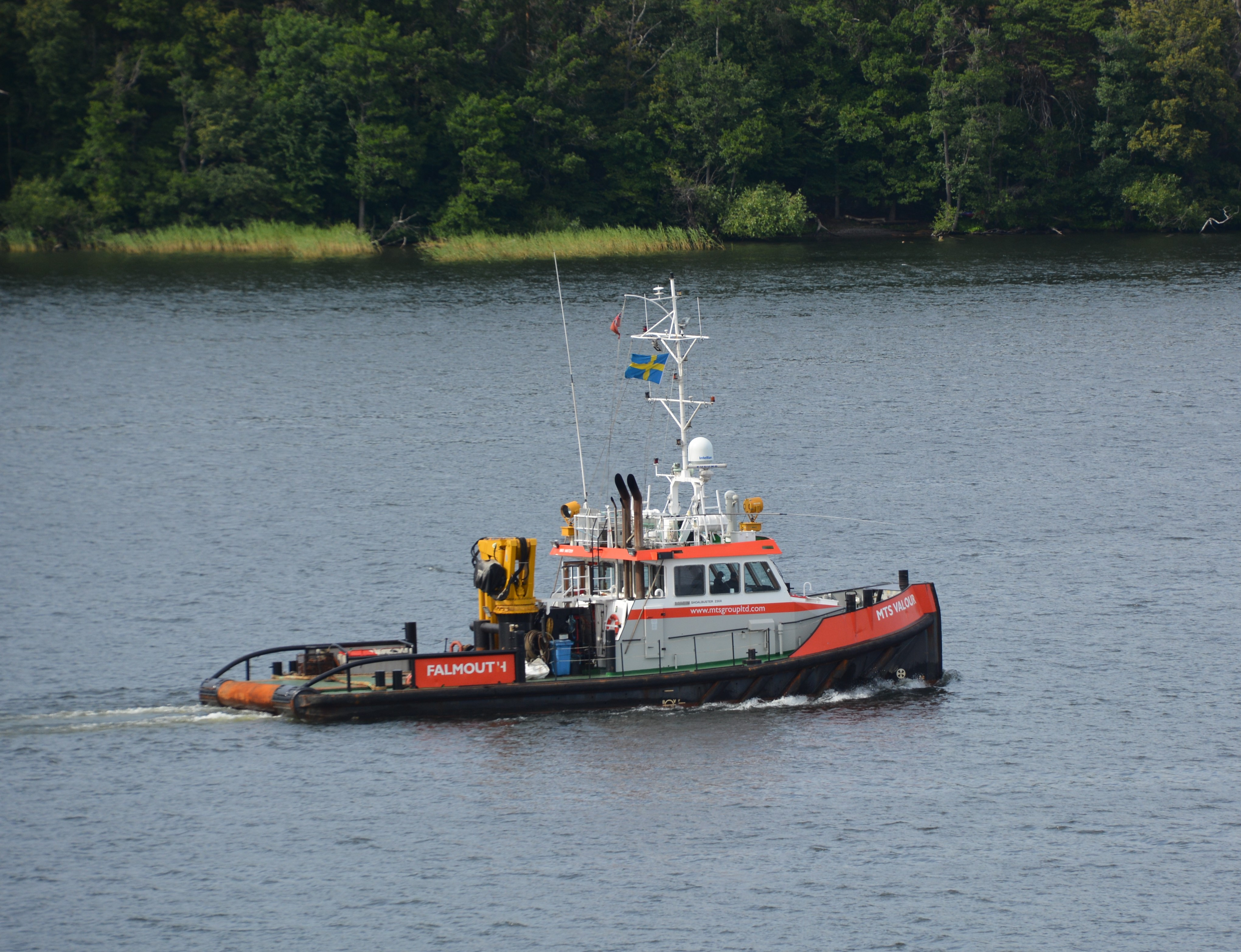 British tugboat MTS Valour at Lake Mälaren, Sweden